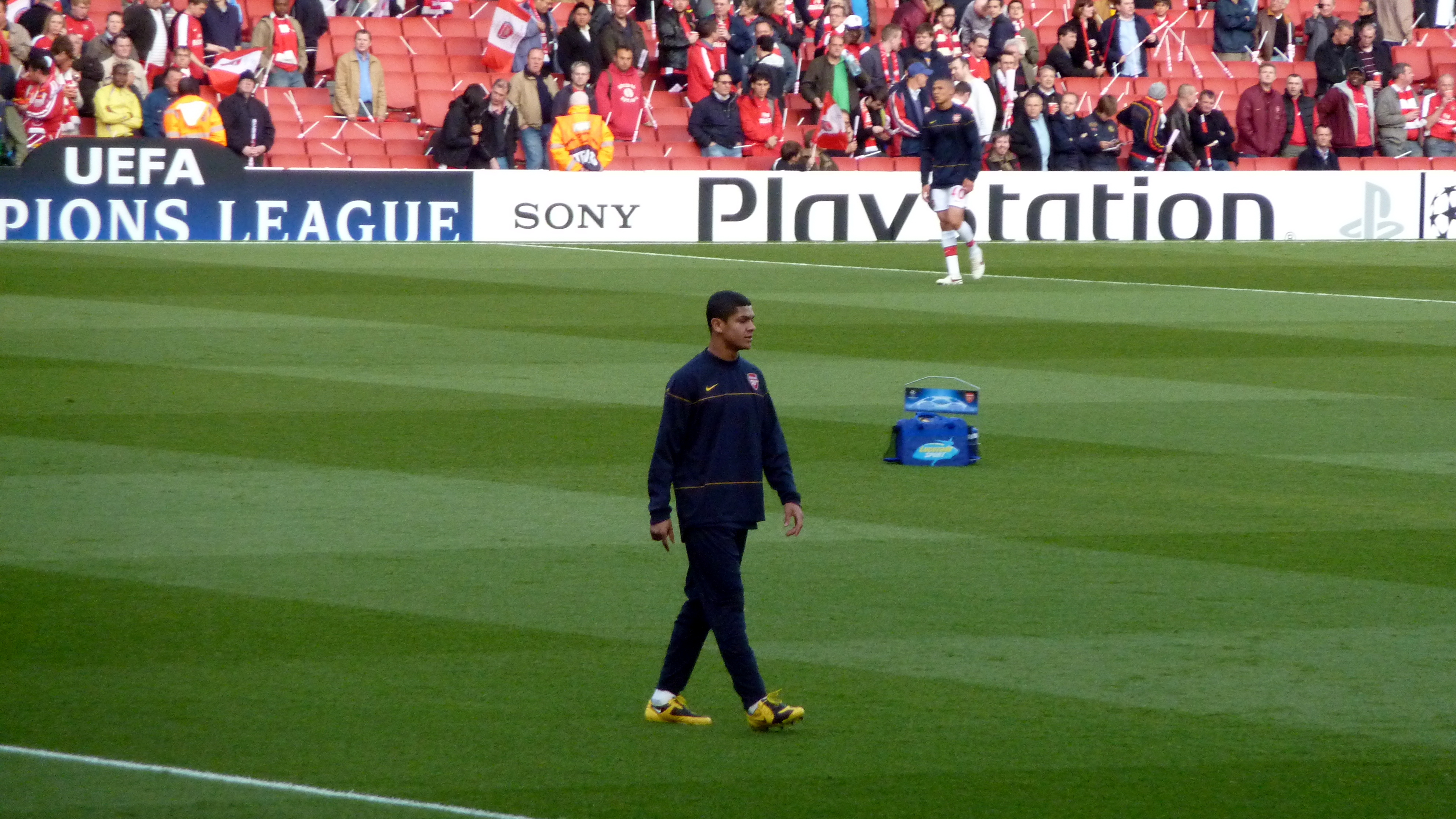 Denilson of Arsenal F.C.